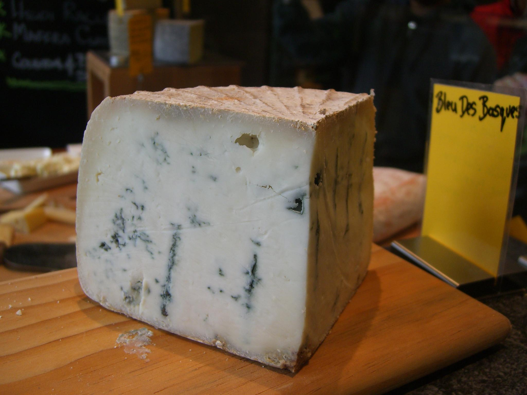 Bleu des Basques cheese